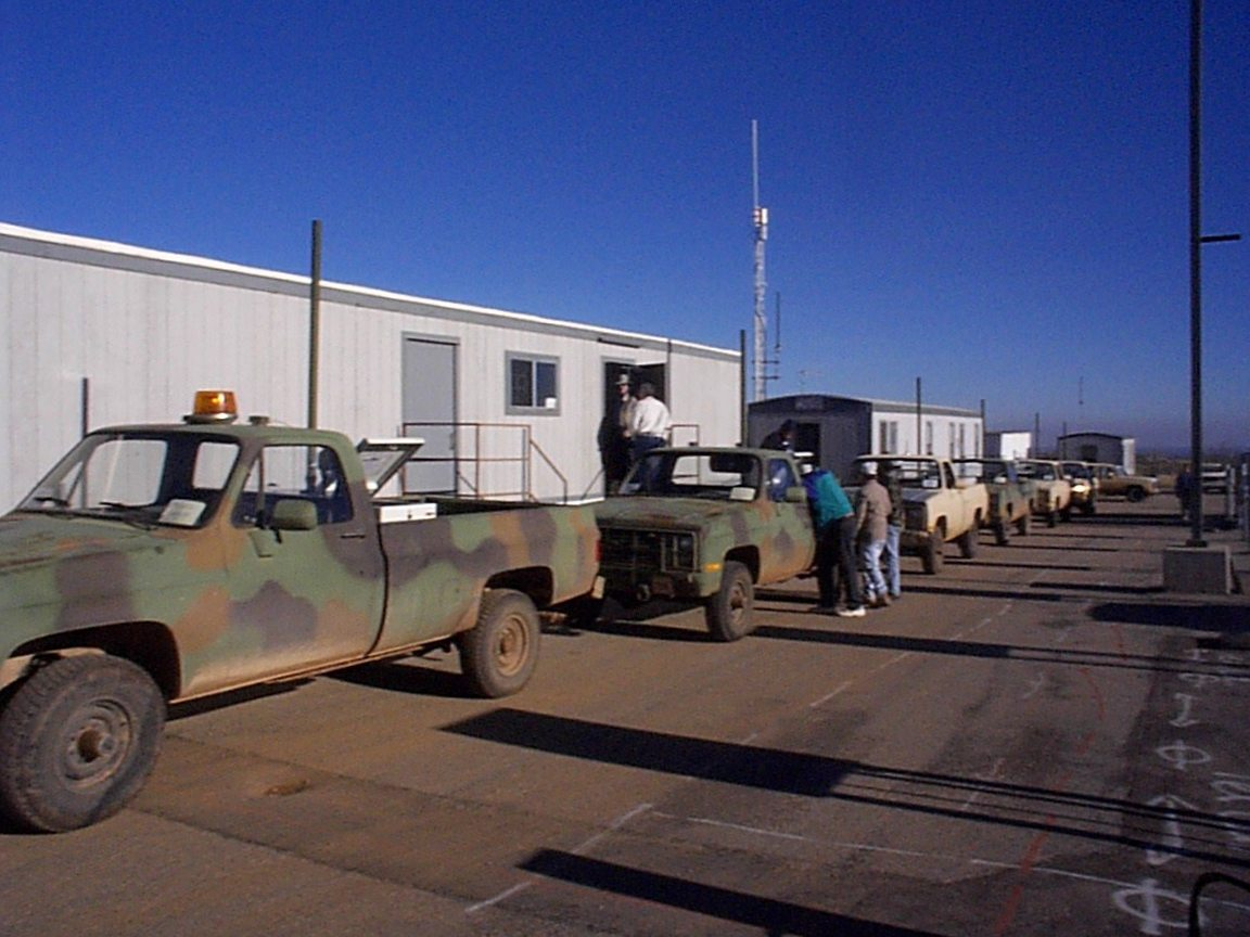 Near-Term Digital Radio, a prototype mobile ad hoc network (MANET) radio system. This photograph is unclassified, and I took it.